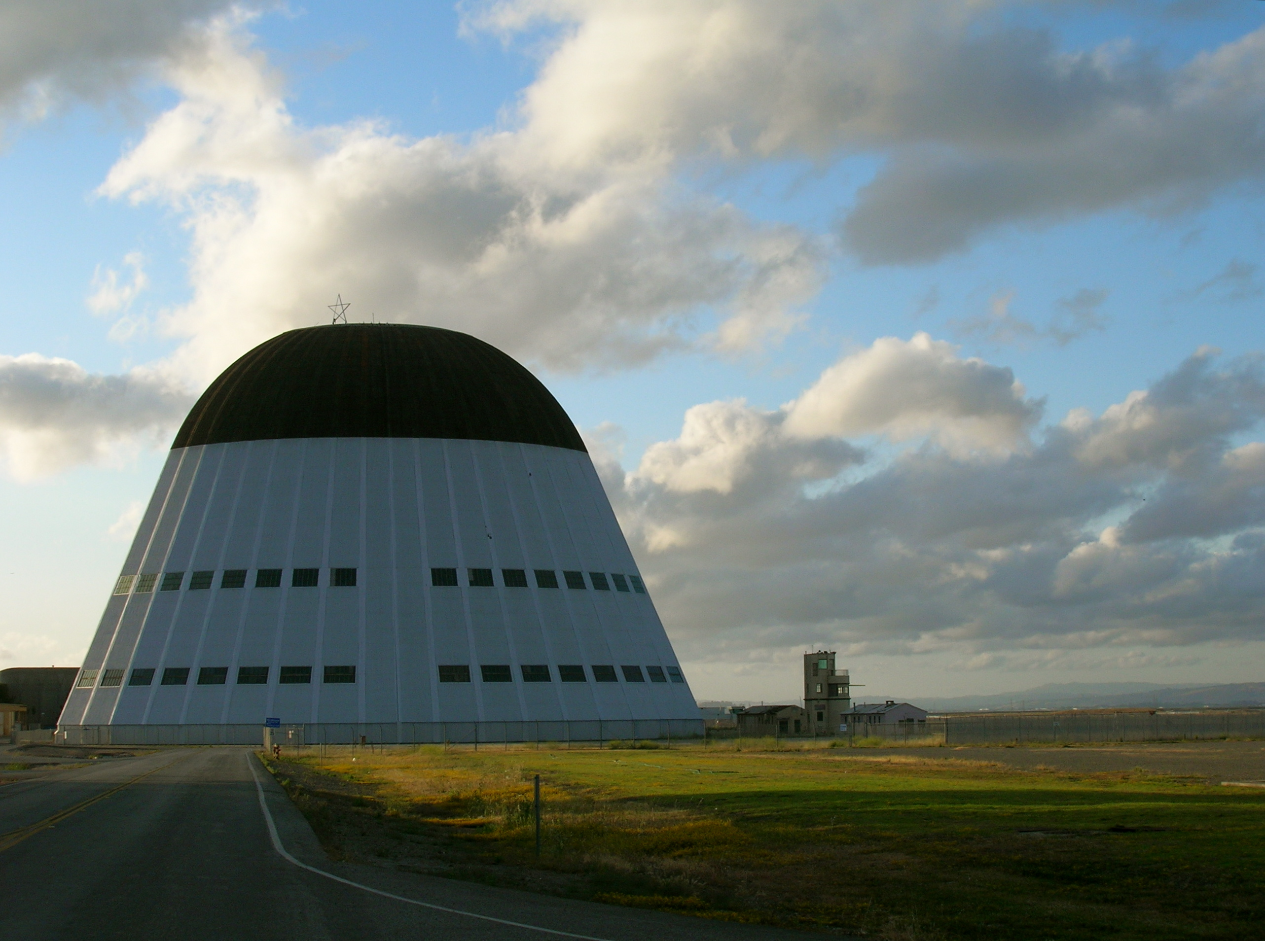 Main Hangar at NASA Ames Research Center